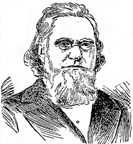 Moses G. Leonard, New York Congressman